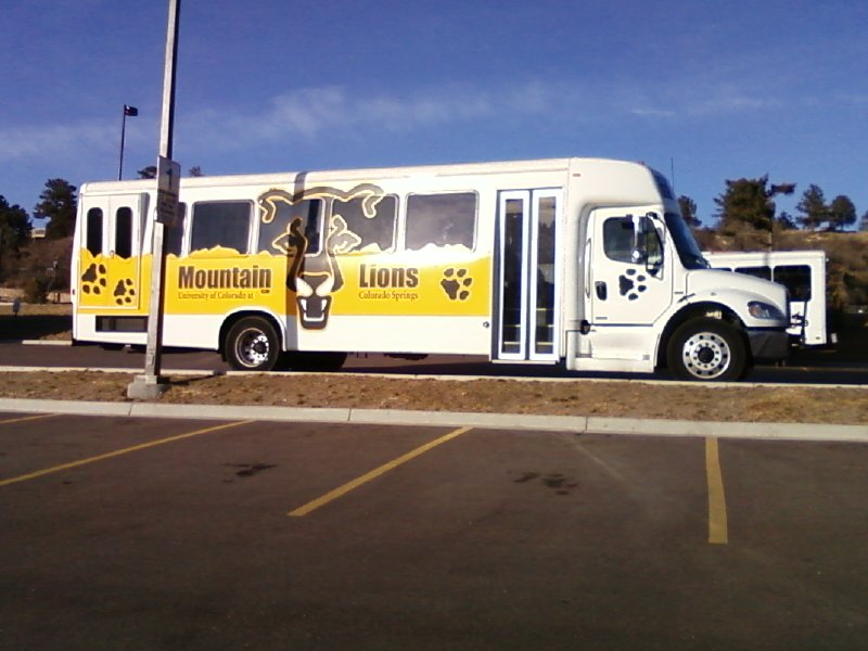 University of Colorado at Colorado Springs bus.